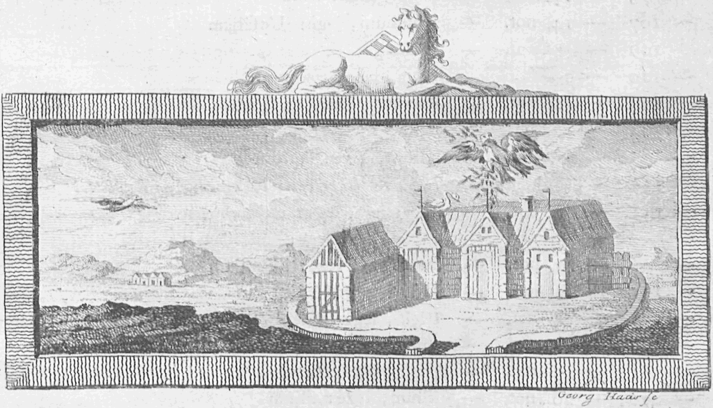 page 395 in book about Gunnlaugs saga ormstunga published in Iceland year 1775